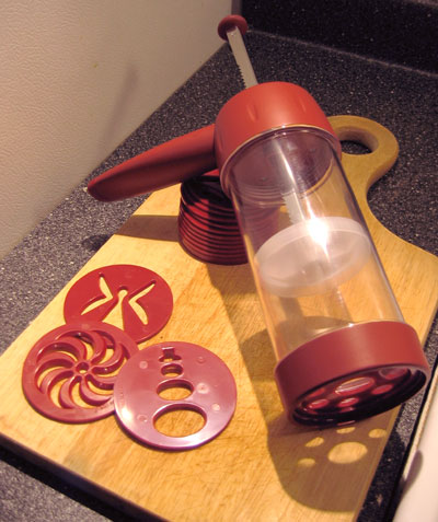 Photographed by Rick Wake to illustrate Cookie Press article.